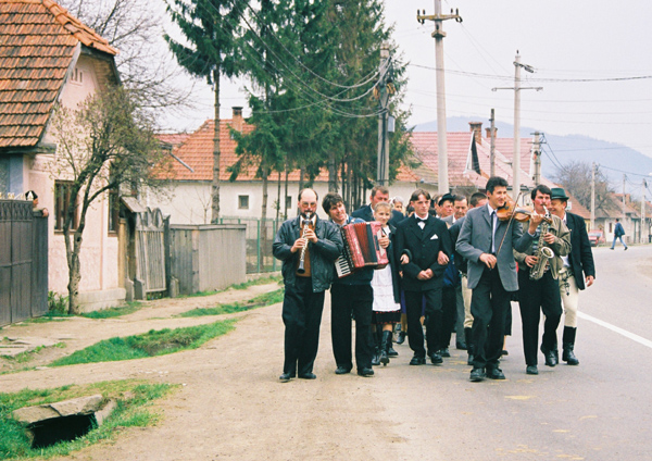 Courtesy of